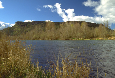 Lower Table Rock north of the Rogue River in Jackson County, Oregon